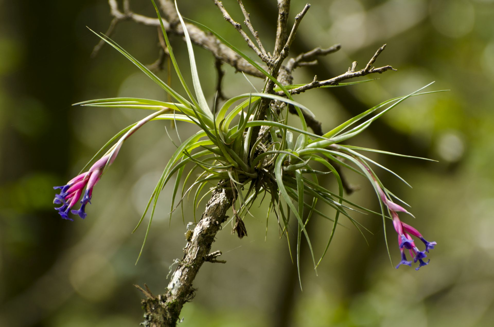 Air carnation